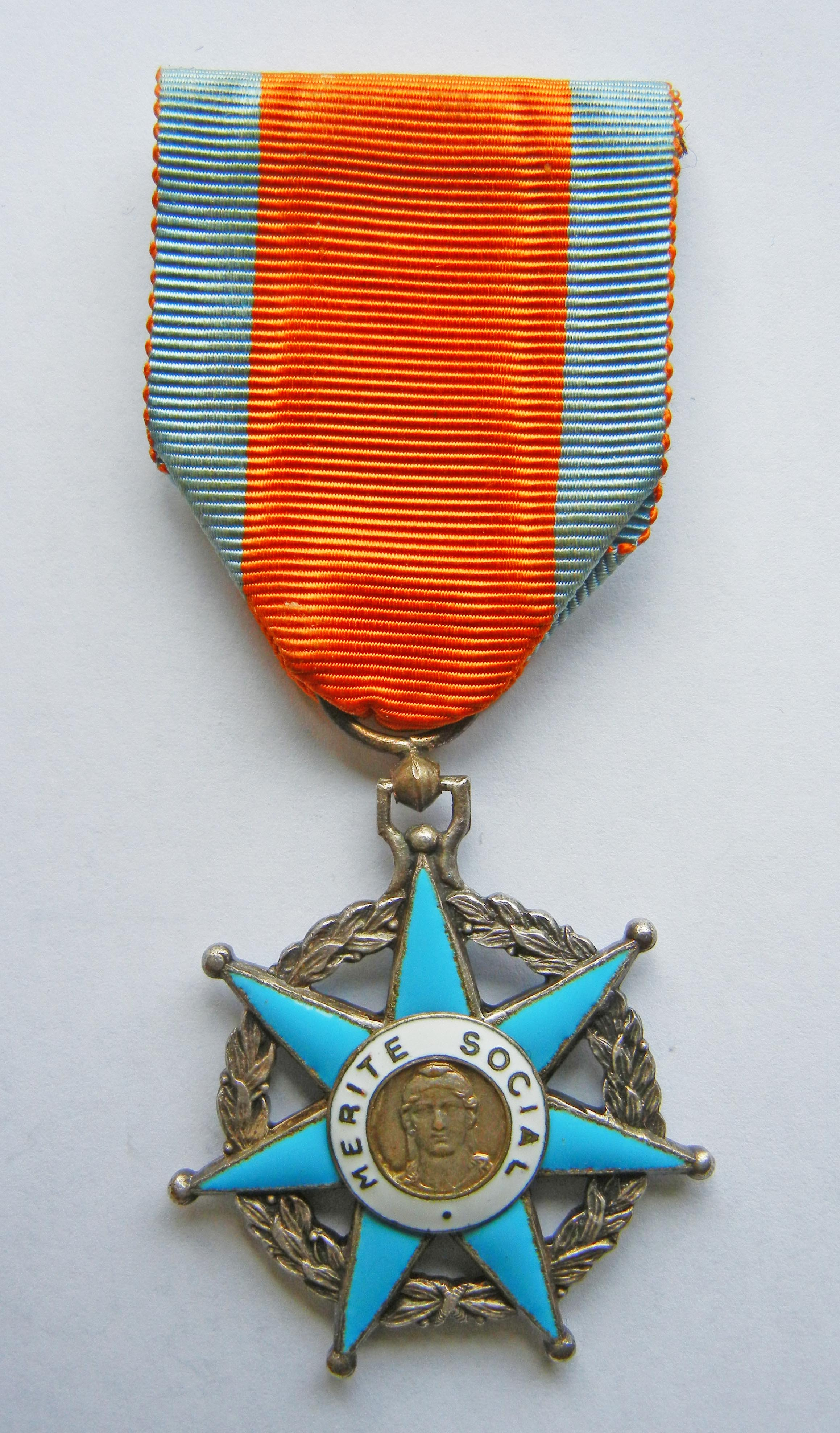 Medal ribbon, Ministry of Labour, Social Merit. obverse